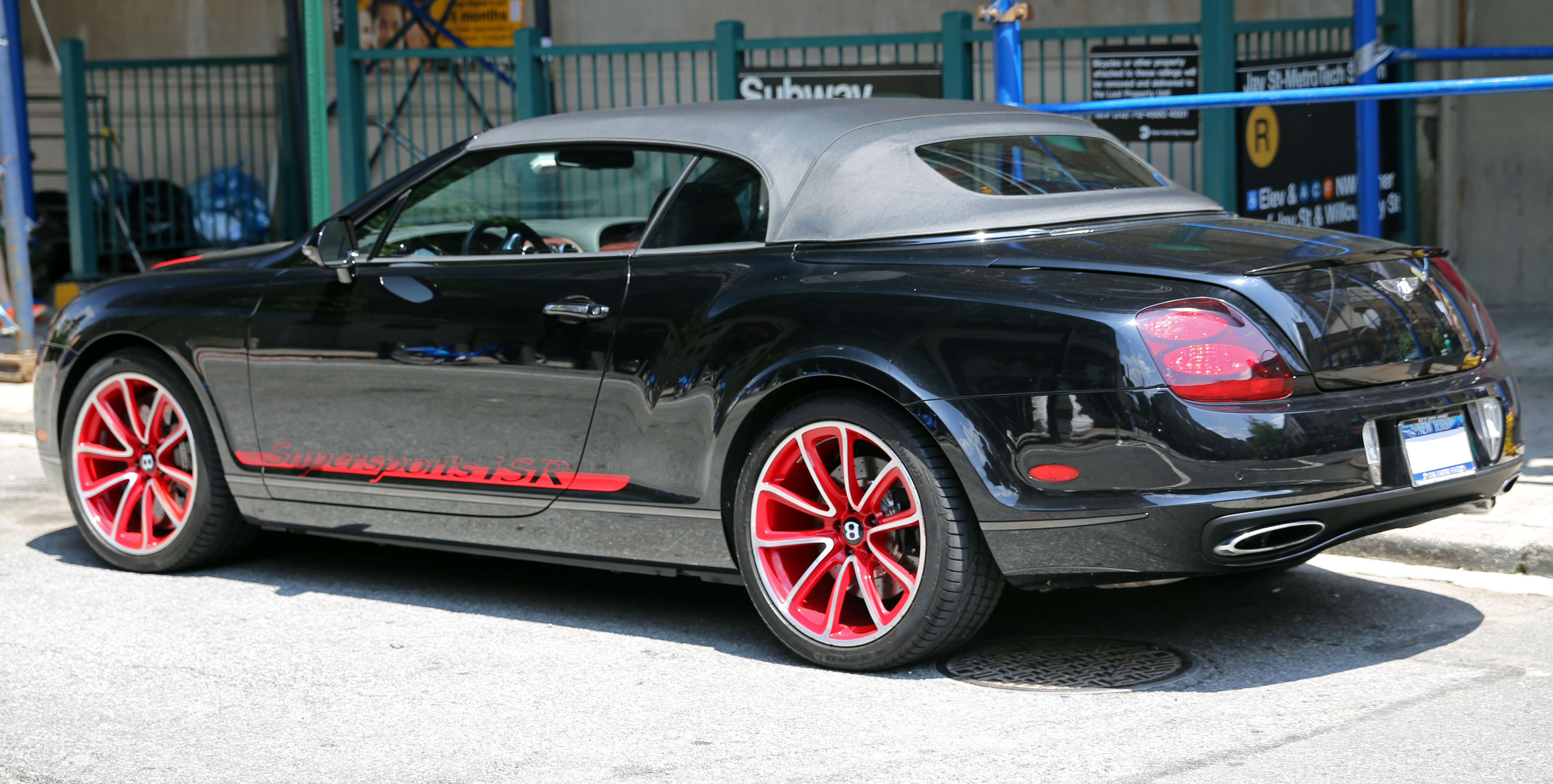 Rear view of 2012 Bentley Continental Supersports ISR (Ice Speed Record) convertible. This is one of 100 built of this special edition, here with wacky pinkish red trim everywhere.